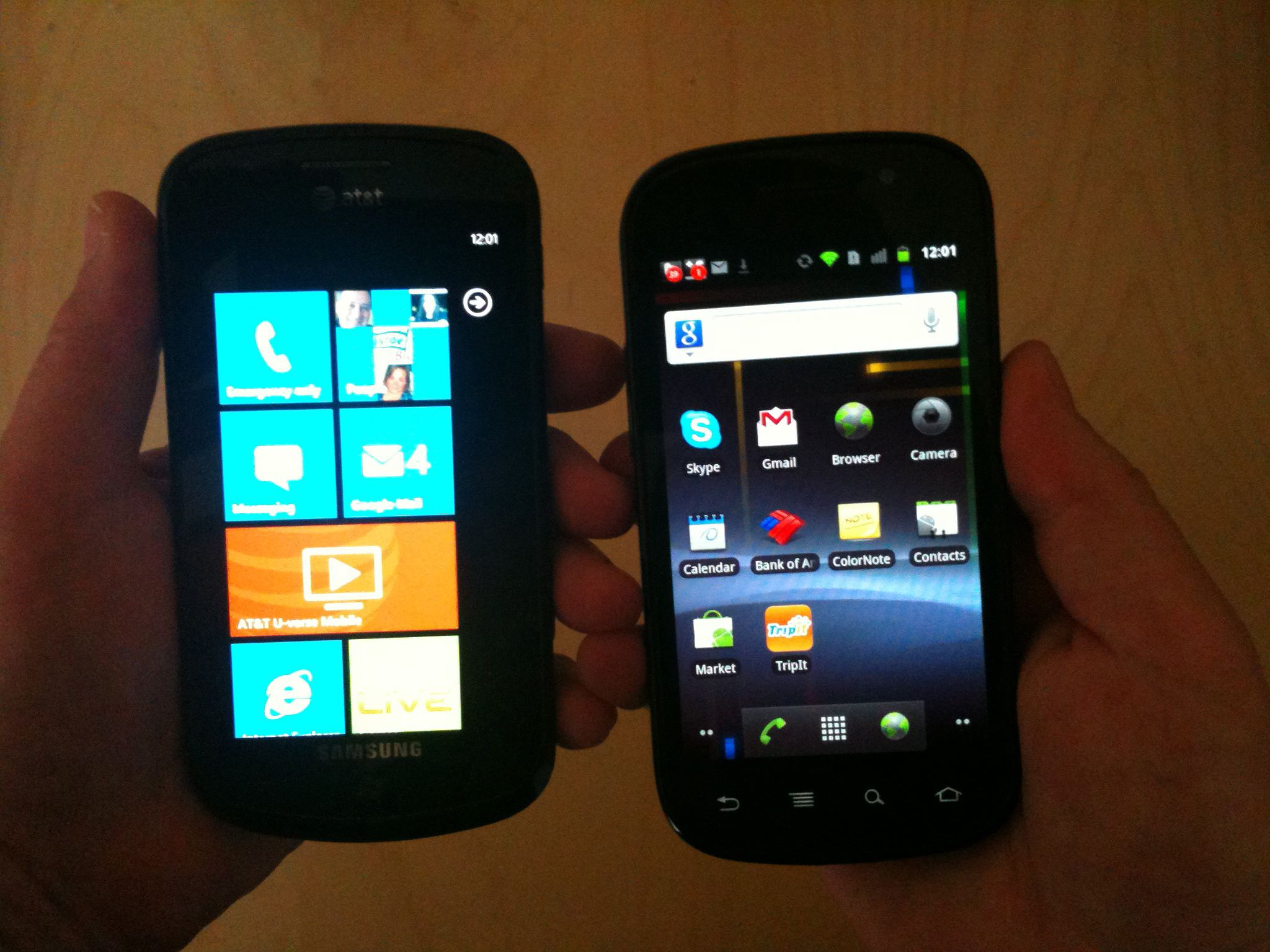 While Apple has not listened to my complaints about its iPhone in app donation policy, Google and Microsoft are all ears. I received a Windows 7 phone from Microsoft and Nexus S Android phone from Google. Now I have a Smartphone for each hand and will be exploring best practices in nonprofits, social media, and mobile during the next year.